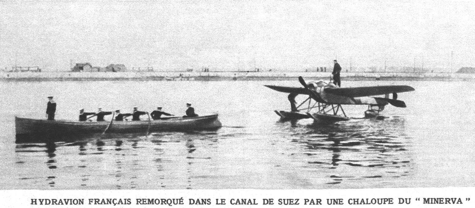 French seaplane on the Suez Canal in March 1915. Photograph published by the weekly Le Miroir 28 March 1915.